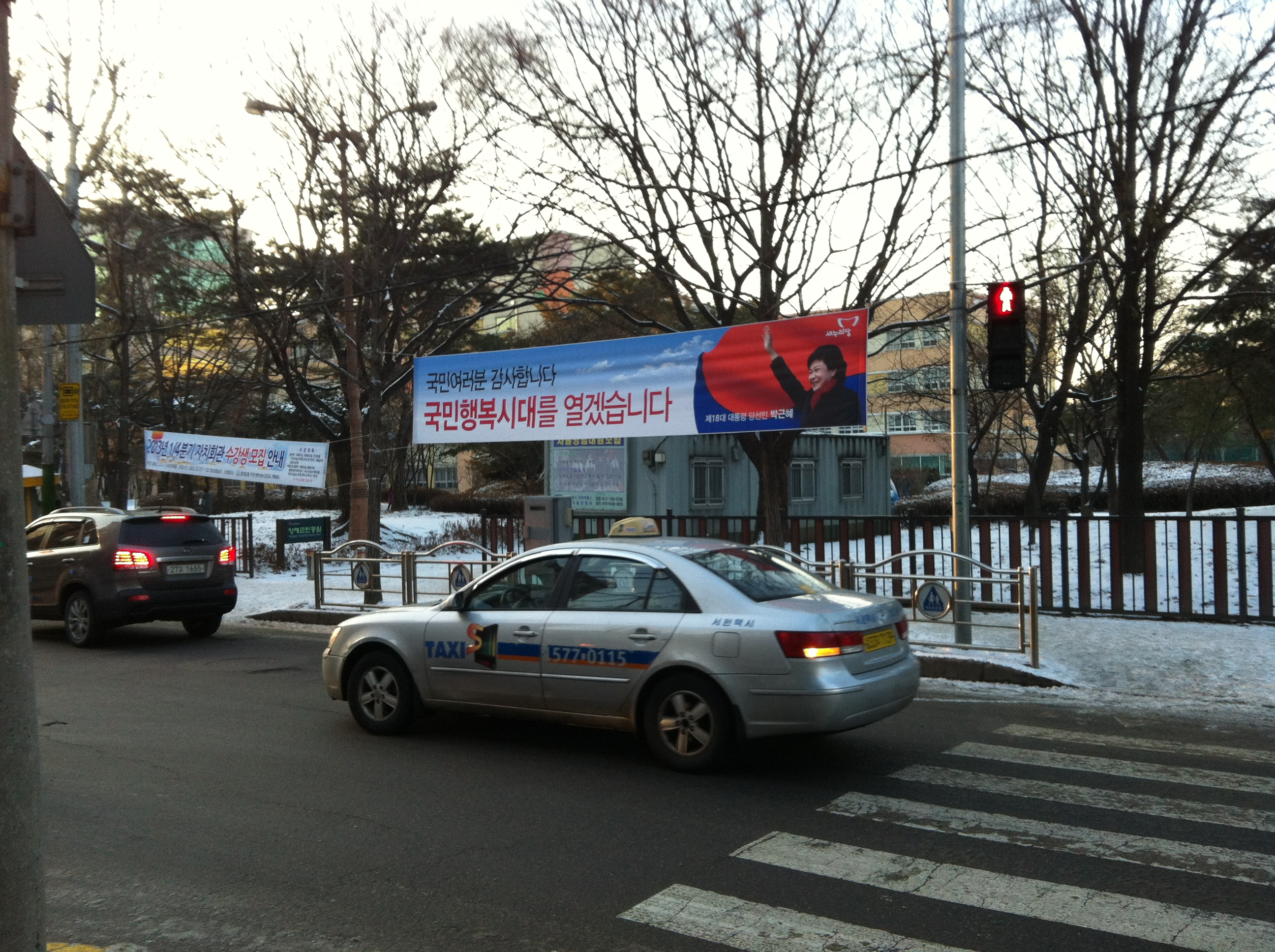 A banner showing gratitude after Park Geun Hye, the presidential candidate of Saenuri Party, was elected in 18th presidential election in Republic of Korea in 2012